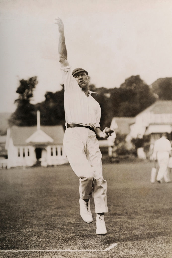 Lancashire and England bowler Harry Dean, circa June 1920